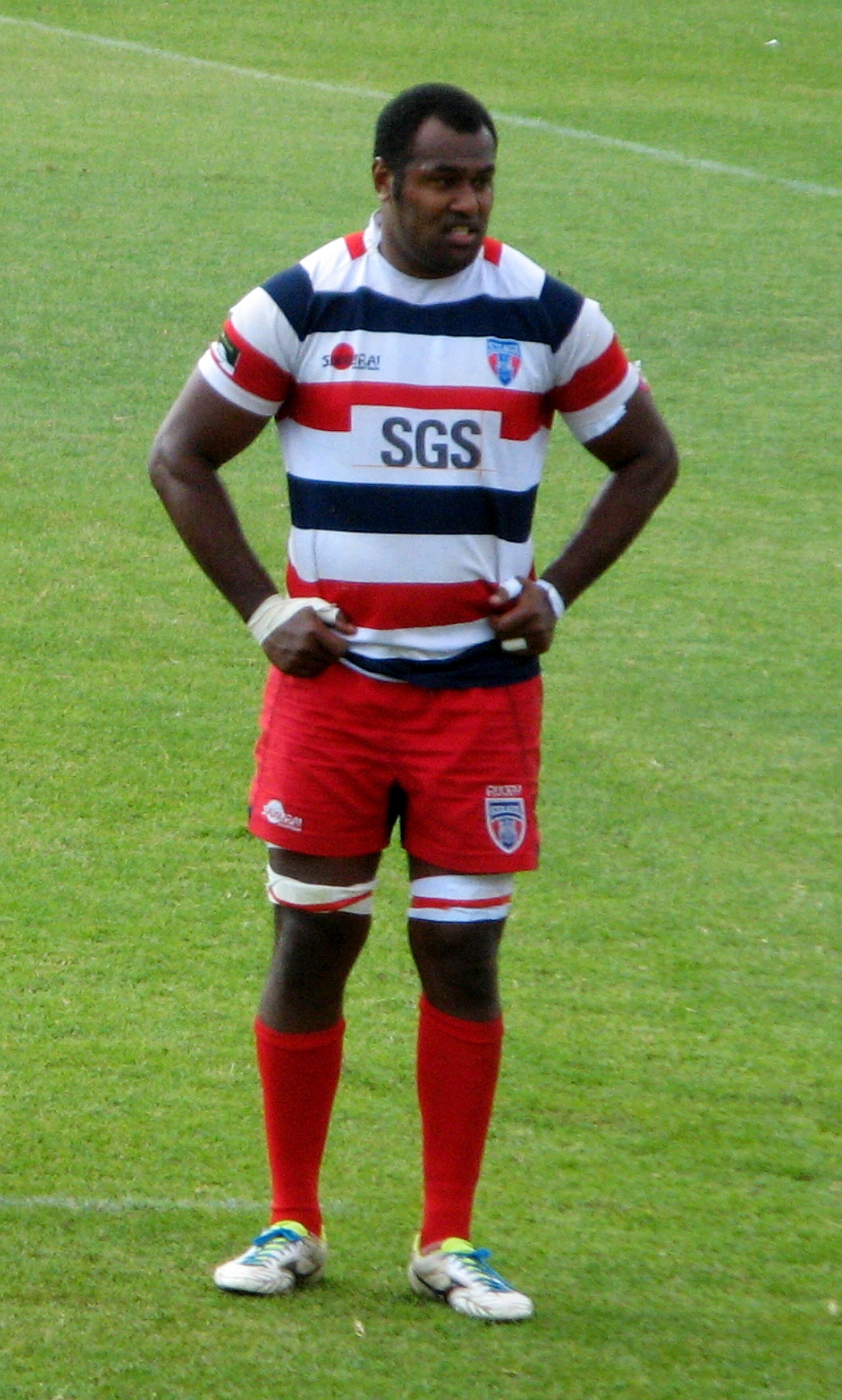 Fijian rugby union football player Eseria Vueti, player of CSA Steaua București rugby club seen in a match against CSM Baia Mare in Round 5 of Romanian Rugby SuperLiga in September 2017